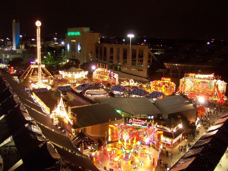 Texas state fair at night. Cotton Bowl in the background